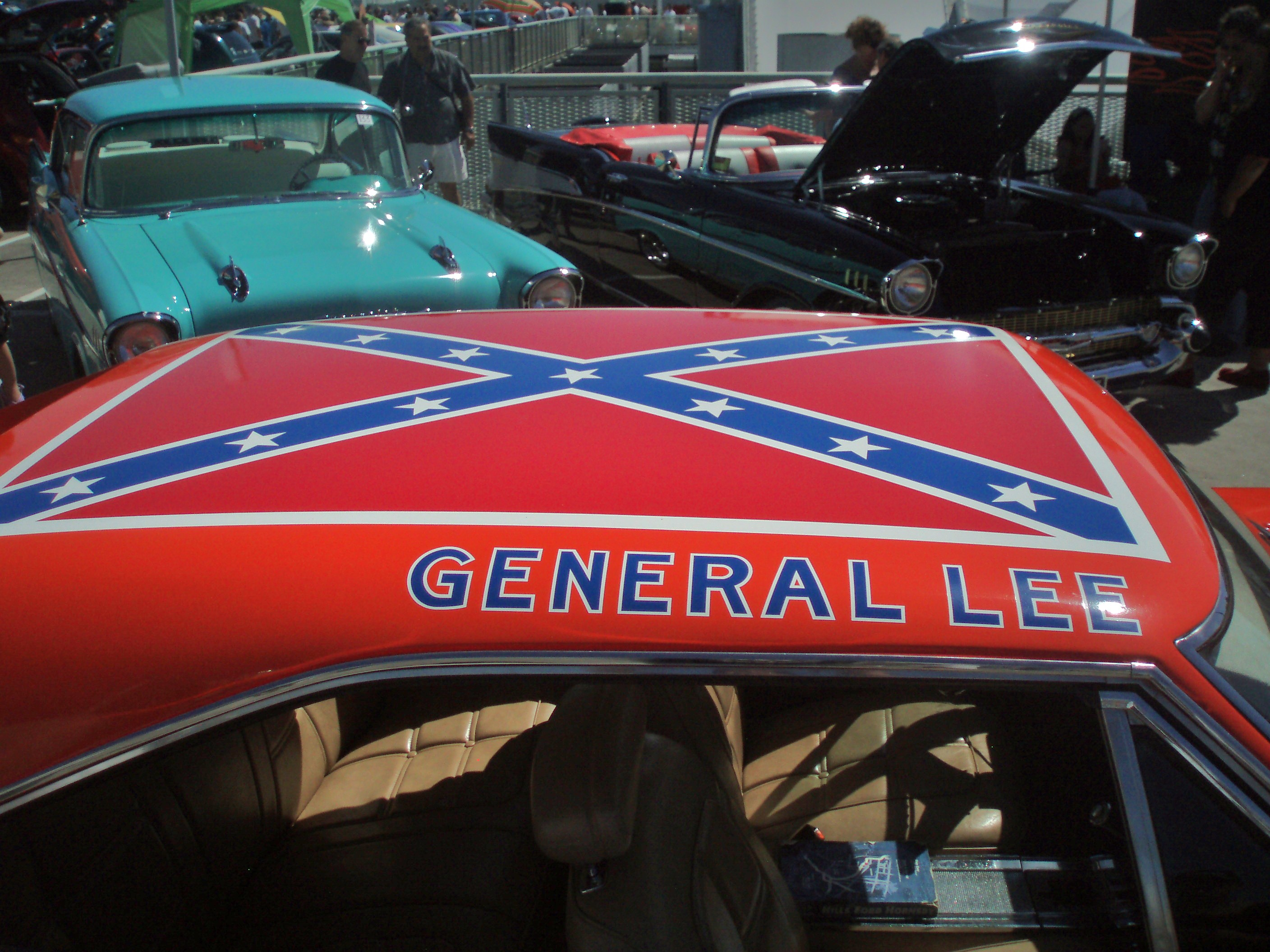 1969 Dodge Charger. General Lee replica. Taken at the 2010 New South Wales All American Day, held at Castle Towers Shopping Centre, Castle Hill, Sydney.